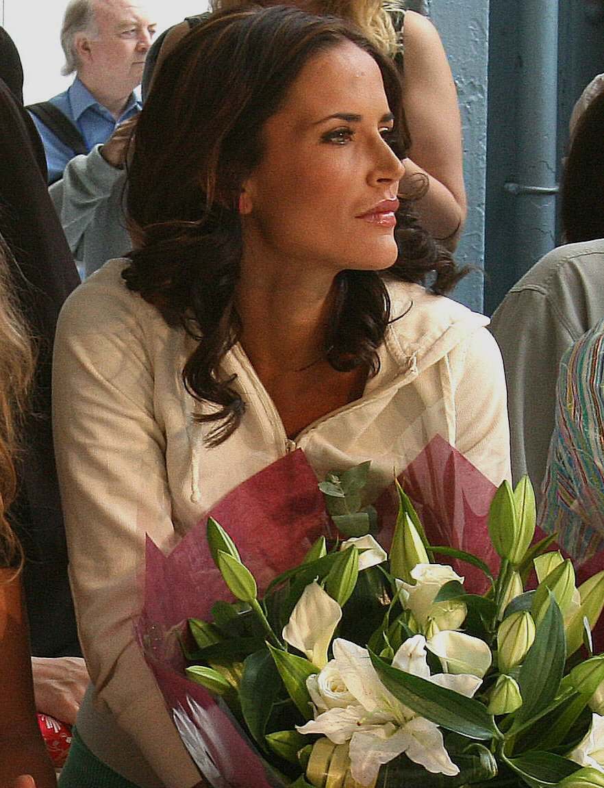 Sophie Anderton